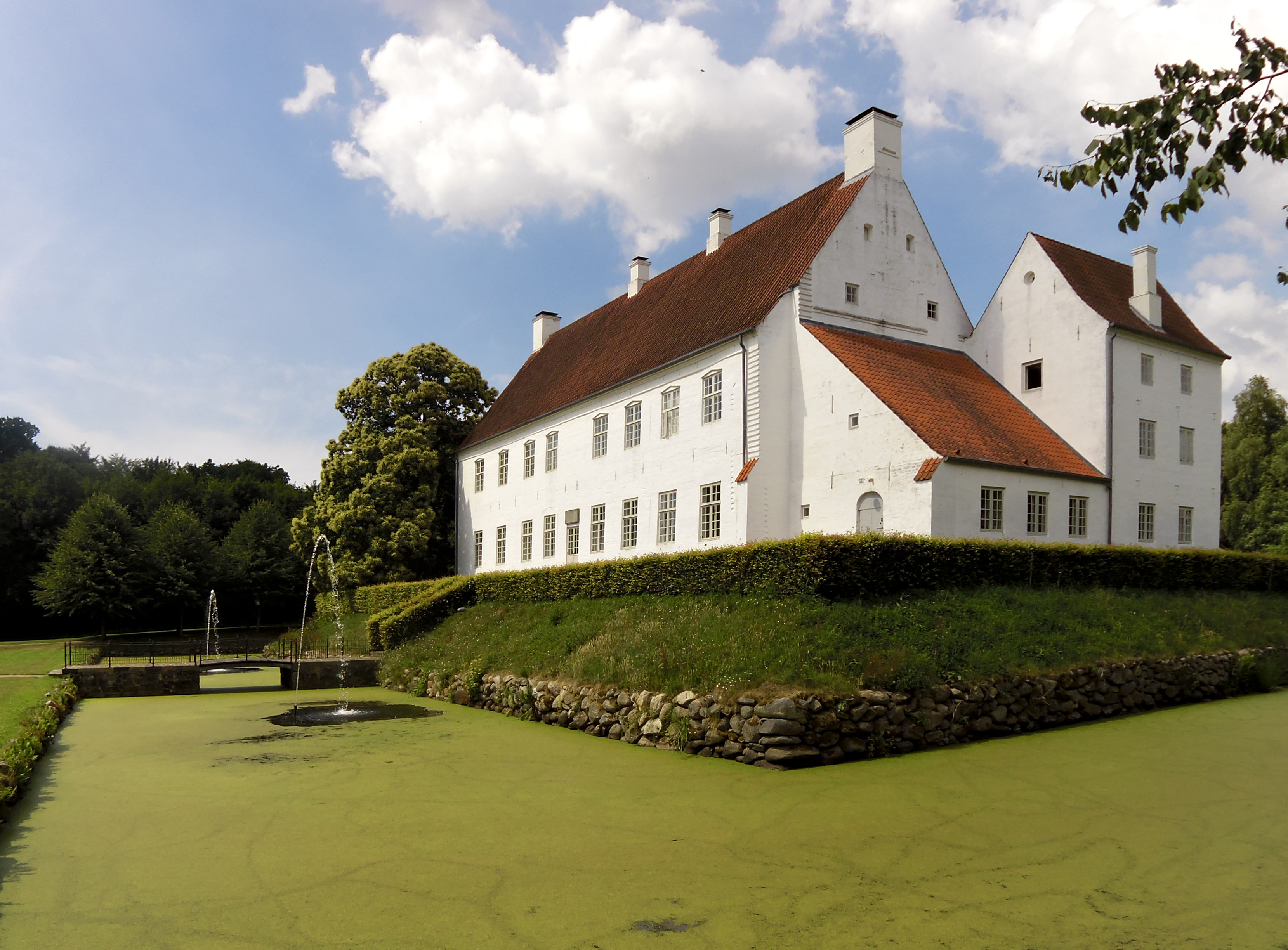 The south & east facades of the manor Sønderskov Hovedgård, which is now a museum